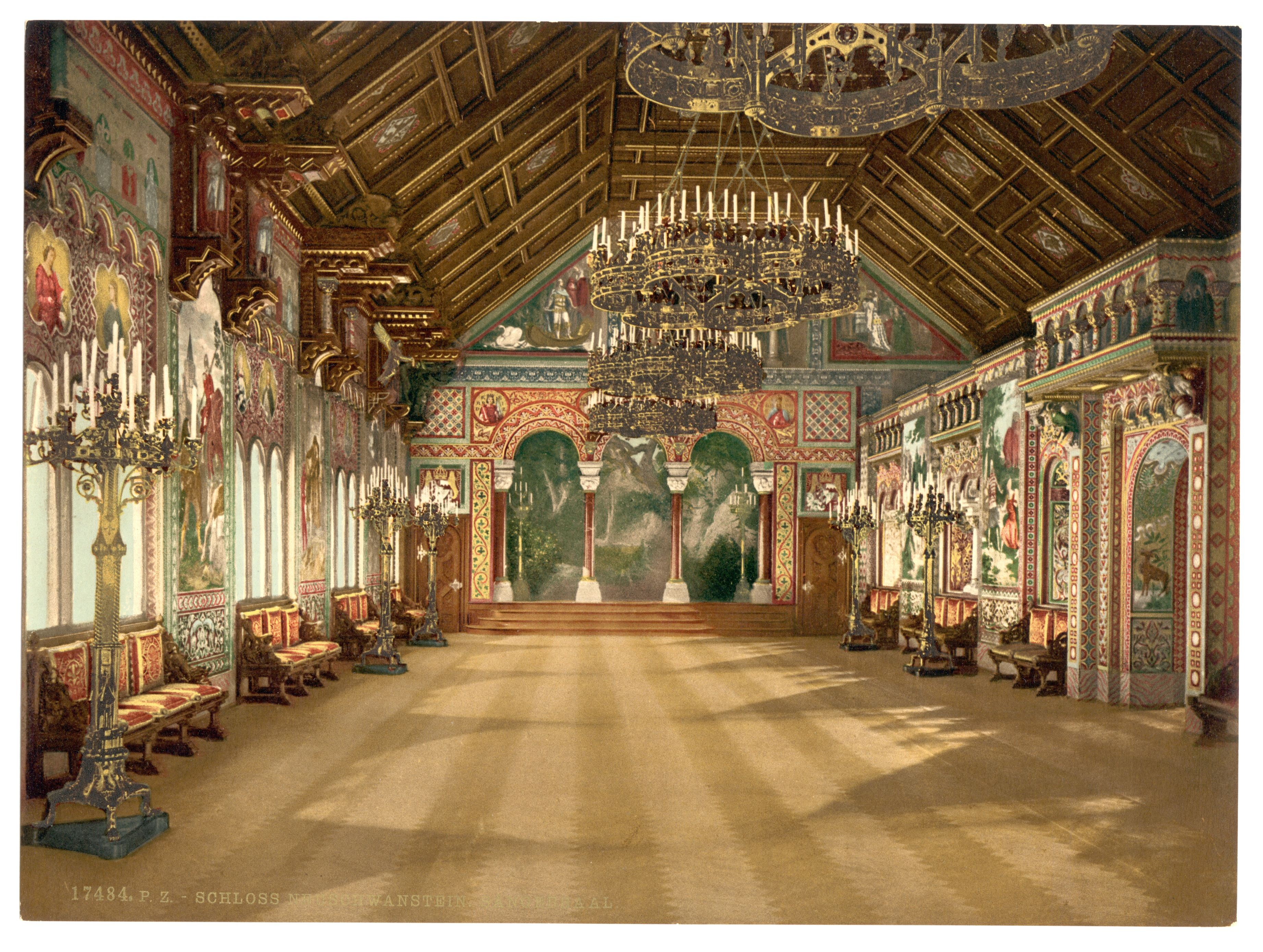 Print no. "17484".; Title from the Detroit Publishing Co., catalogue J-foreign section. Detroit, Mich. : Detroit Photographic Company, 1905.; Forms part of: Views of Germany in the Photochrom print collection.